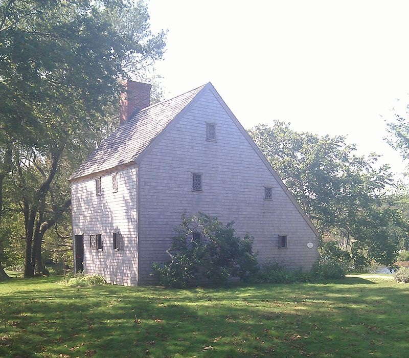 The Hoxie House in Sandwich, MA taken in September 2011.